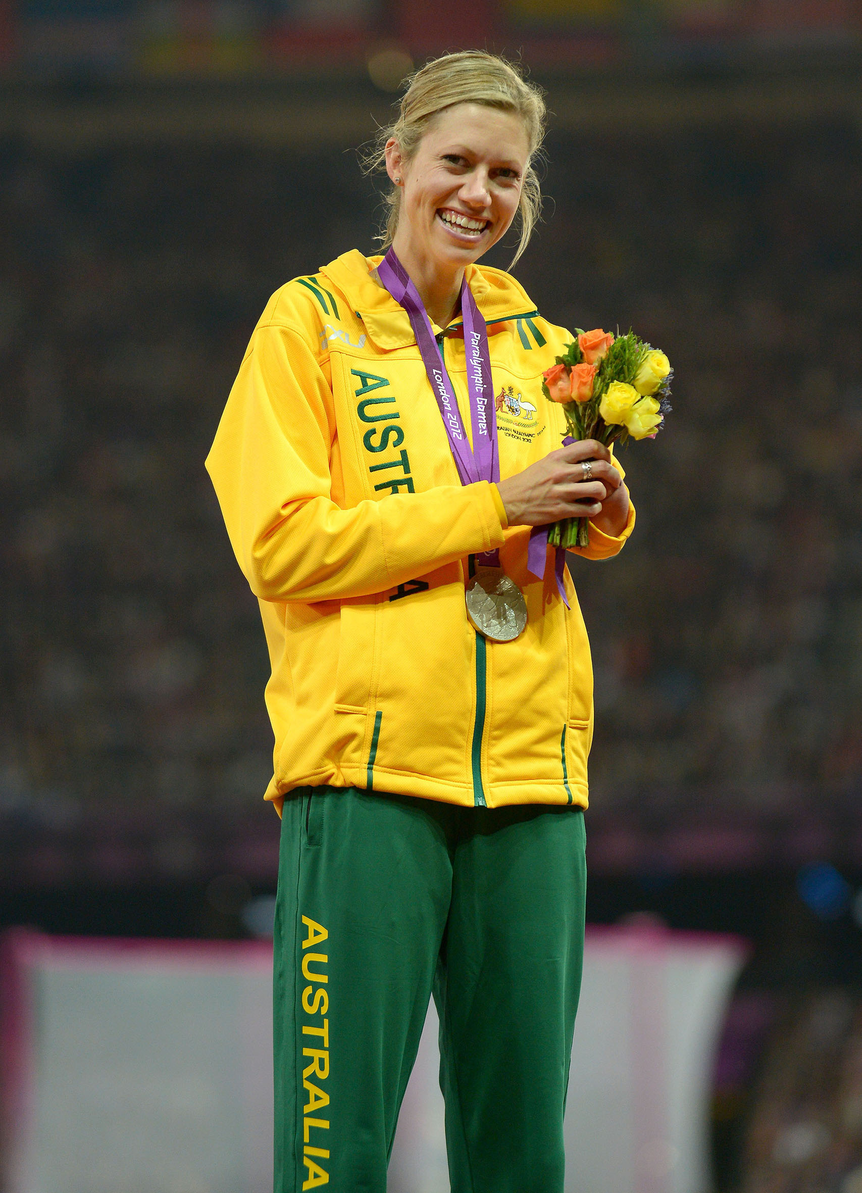 Photograph of Australian Paralympic team member Carlee Beattie at the 2012 Summer Paralympic Games in London